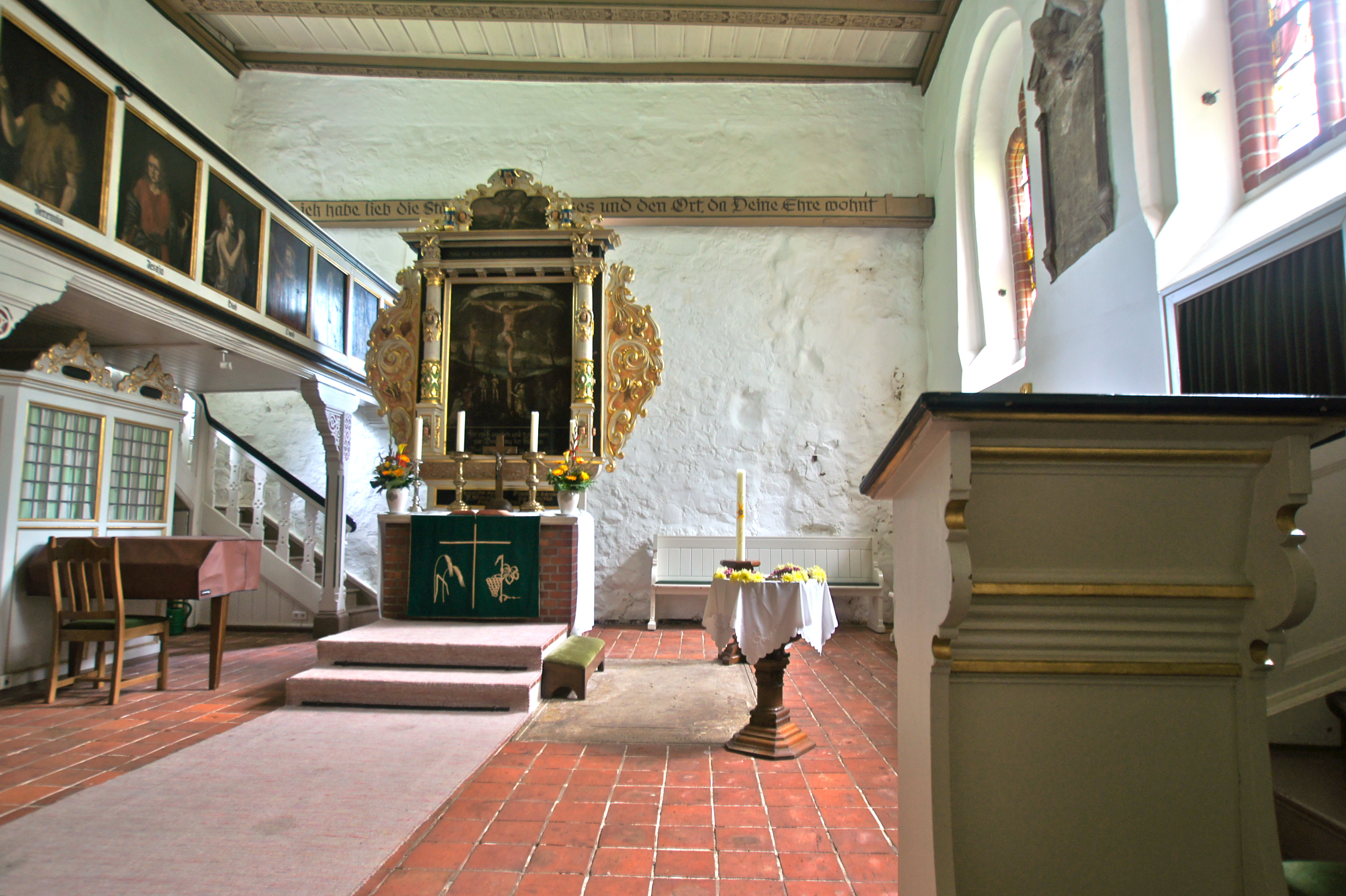 Hamburg (Sinstorf), Germany: Church: altar